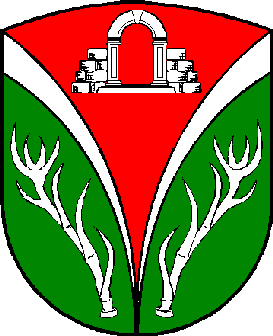 Coat of Arms of Tharandt